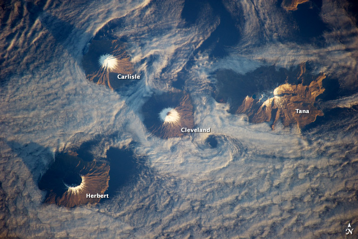 Morning sunlight illuminates the southeast-facing slopes of the Islands of the Four Mountains in this photograph taken from the International Space Station (ISS). The islands, part of the Aleutian Island chain, are actually the upper slopes of volcanoes rising from the sea floor: Carlisle, Cleveland, Herbert, and Tana. Carlisle and Herbert volcanoes are distinct cones and form separate islands. Cleveland volcano and the Tana volcanic complex form the eastern and western ends respectively of Chuginadak Island. A cloud bank obscures the connecting land mass in this image.